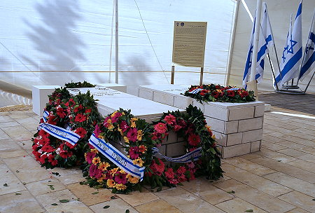 Picture of the reburial ceremony in Avichayil, Israel for Lt. Col. John Henry Patterson 12-4-14